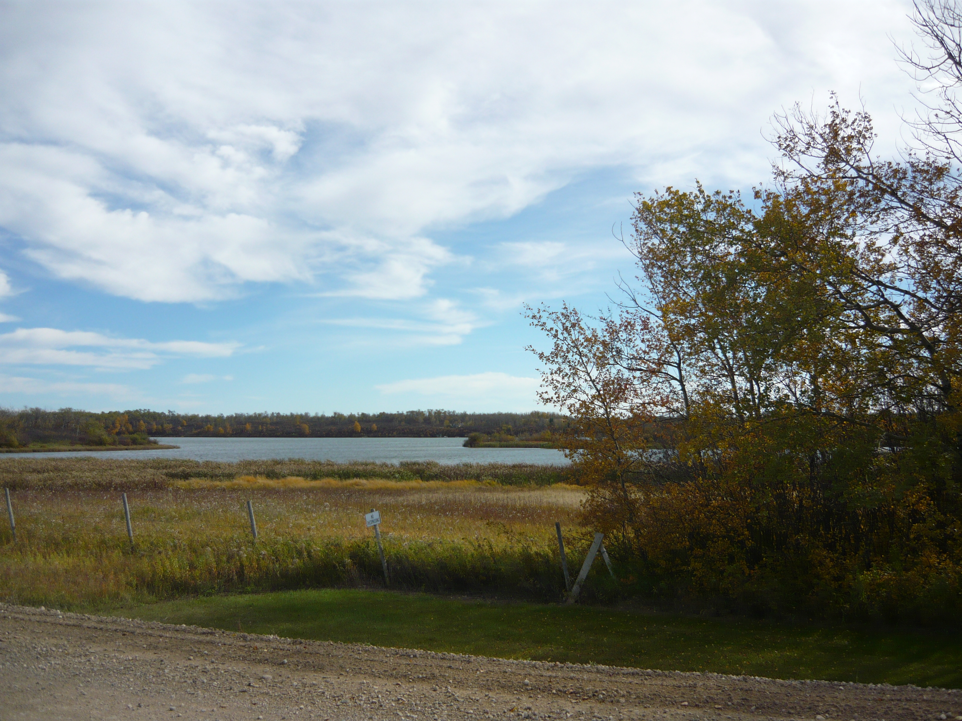 Resort village of Nelson Beach, near Wakaw, Saskatchewan, Canada. Photo of Wakaw Lake taken from 3rd Street North.